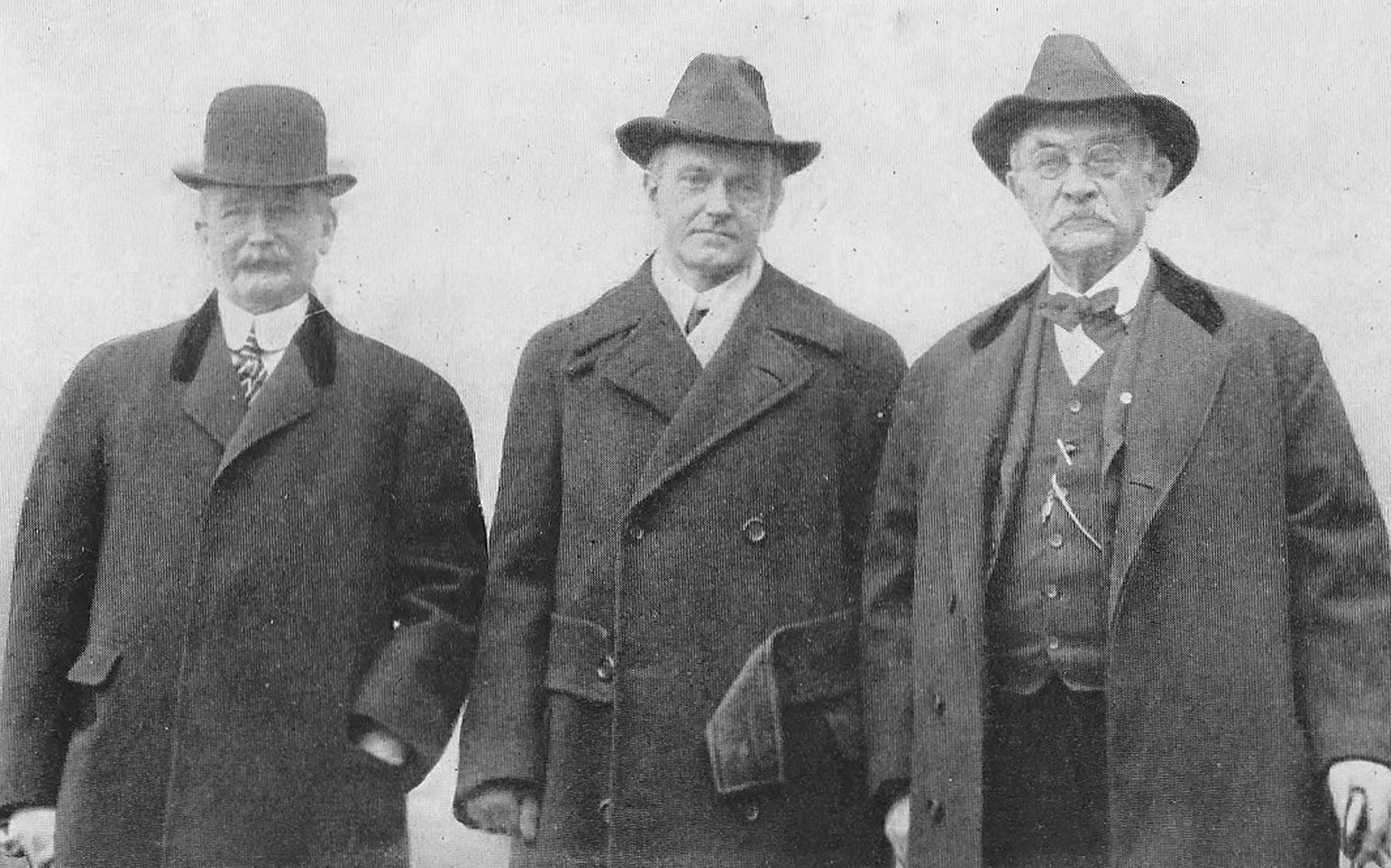 President Calvin Coolidge (middle) shown with Henry P Field (left) and John C Hammond (right) at Amherst College.